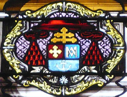 Cardinal Desprez's blazon, on a stained glass of the cathedral of Toulouse, France